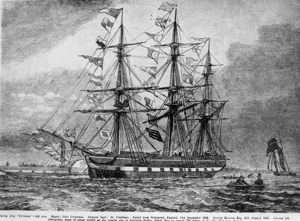 Fortitude (ship). Drawing of the 'Fortitude'. 608 tons. Master: John Christmas. Surgeon Supt.: Dr. Challinor. Sailed from Gravesend, England, 14 September 1848. Arrived Moreton Bay 20 January 1849. Carried 256 immigrants, many of whom settled on the present site of Fortitude Valley, which they so named in honour of the ship. (Description supplied with photograph).